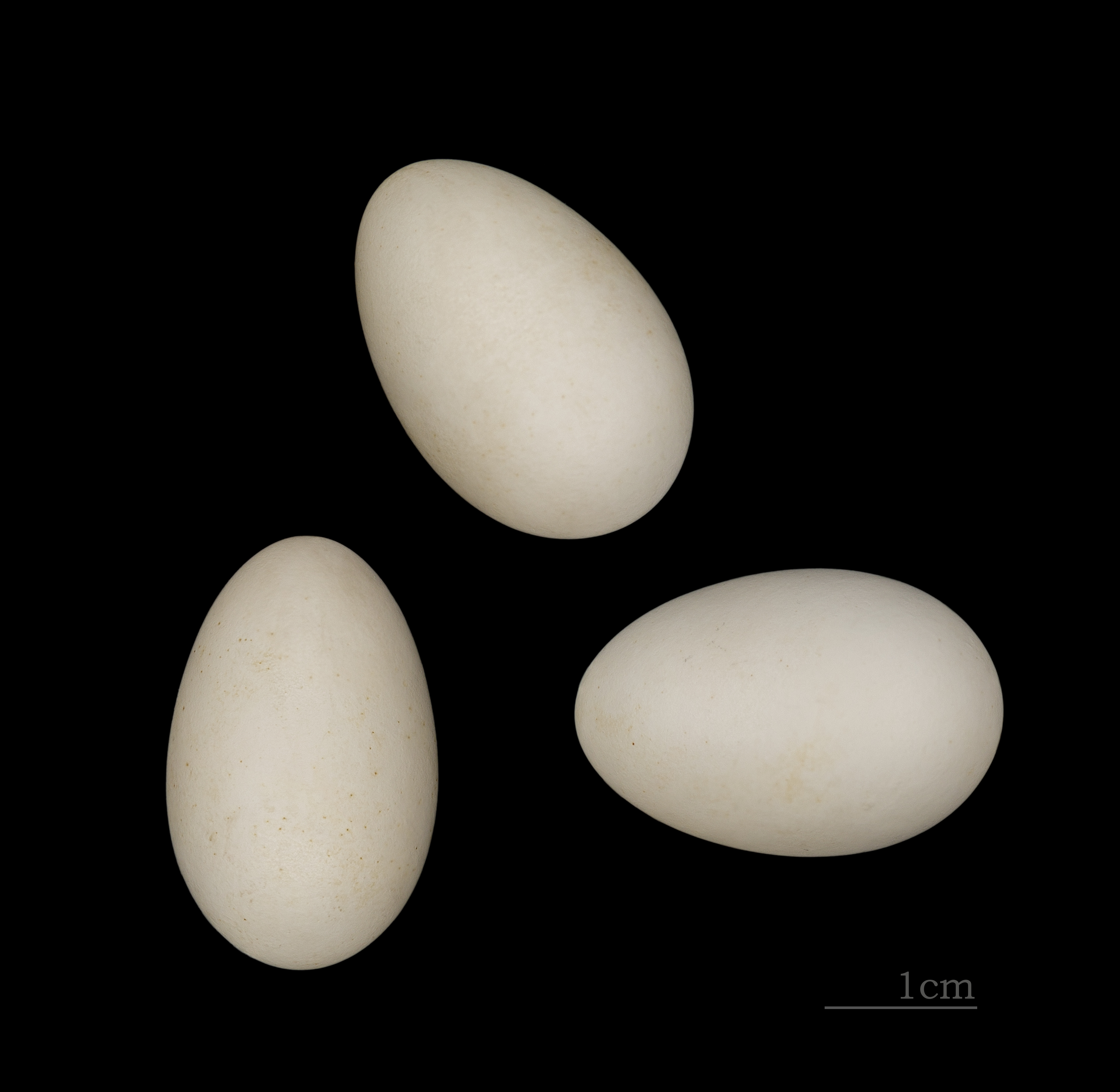 Egg of Alpine Swift. Collection of René de Naurois/Jacques Perrin de Brichambaut